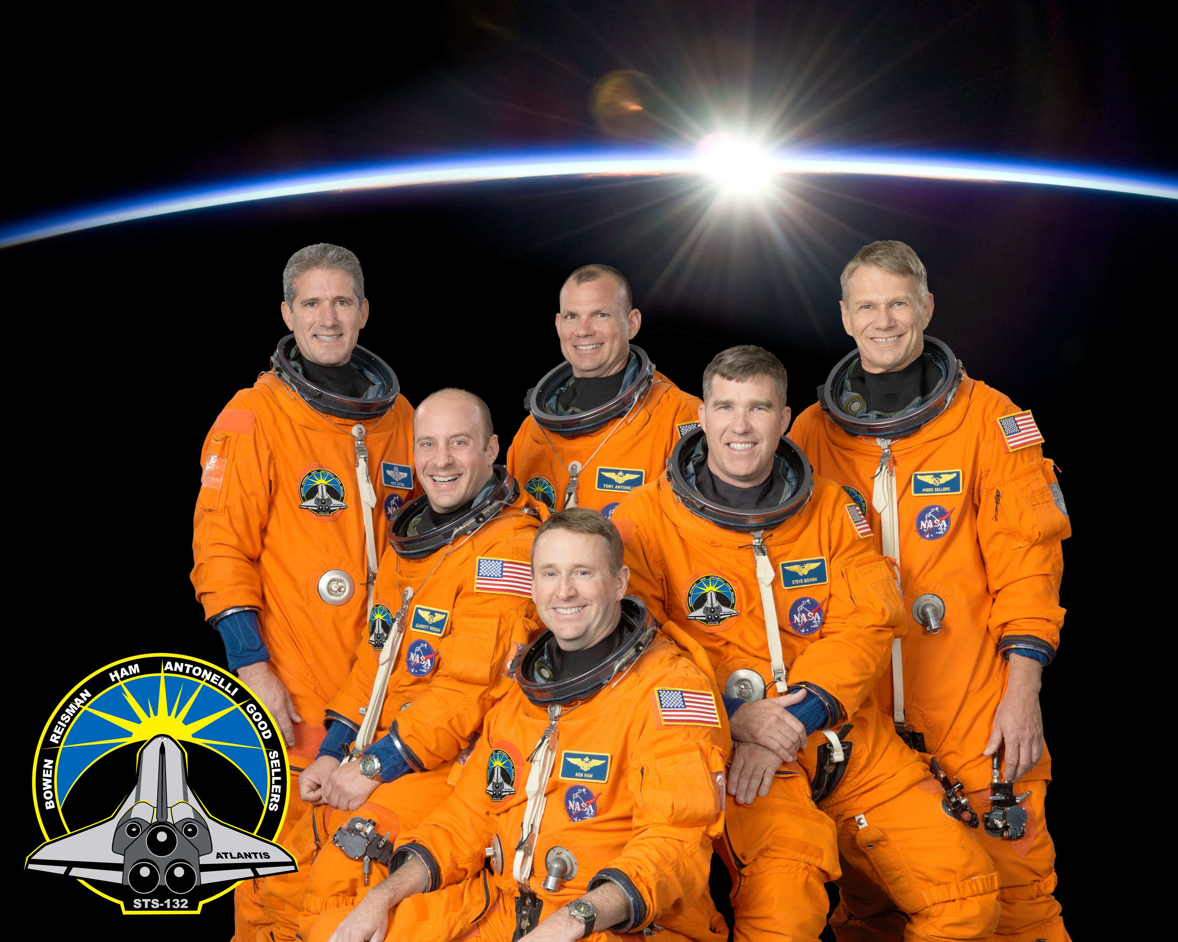 Attired in training versions of their shuttle launch and entry suits, these six astronauts take a break from training to pose for the STS-132 crew portrait. Pictured clockwise are NASA astronauts Ken Ham (bottom), commander; Garrett Reisman and Michael Good, both mission specialists; Tony Antonelli, pilot; Piers Sellers and Steve Bowen both mission specialists.